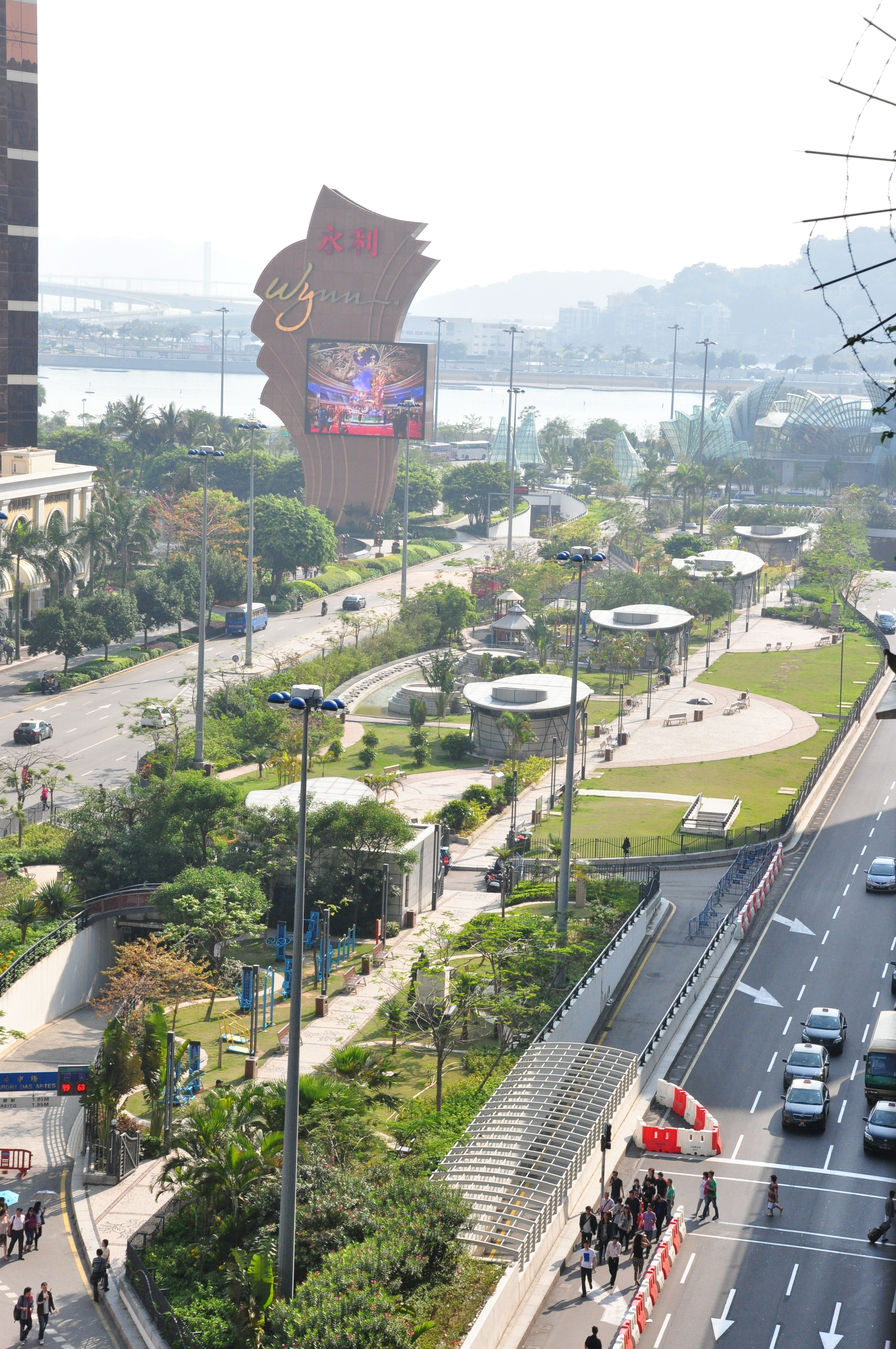 Arts Garden, Macao